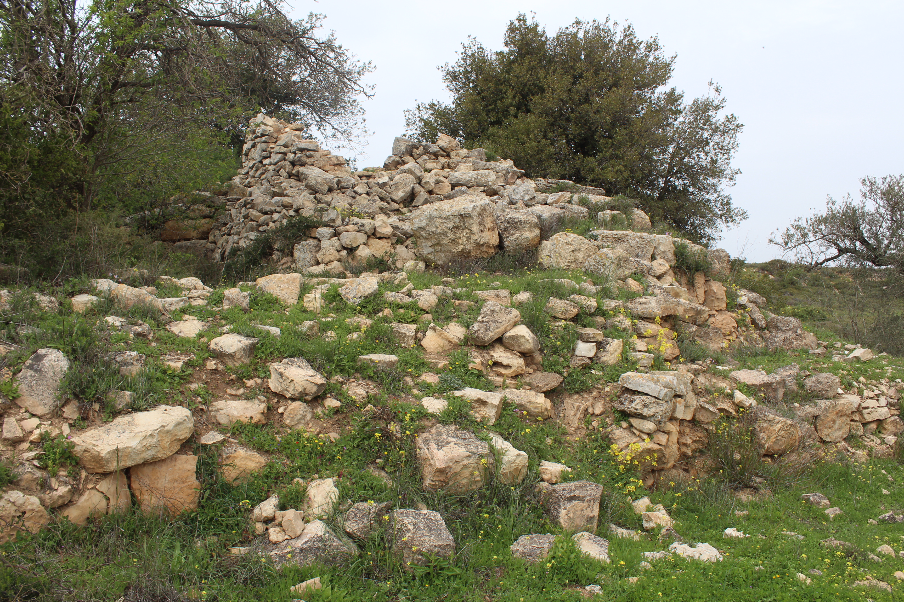 Jeroboam's Temple Guard Tower, Beit El, occupied Palestine. This image was taken as part of the Elef Millim project trip to "Jacob's dream", in Bethel which was held on Friday, 17th March 2017. To view all images uploaded as part of the Elef Millim Project